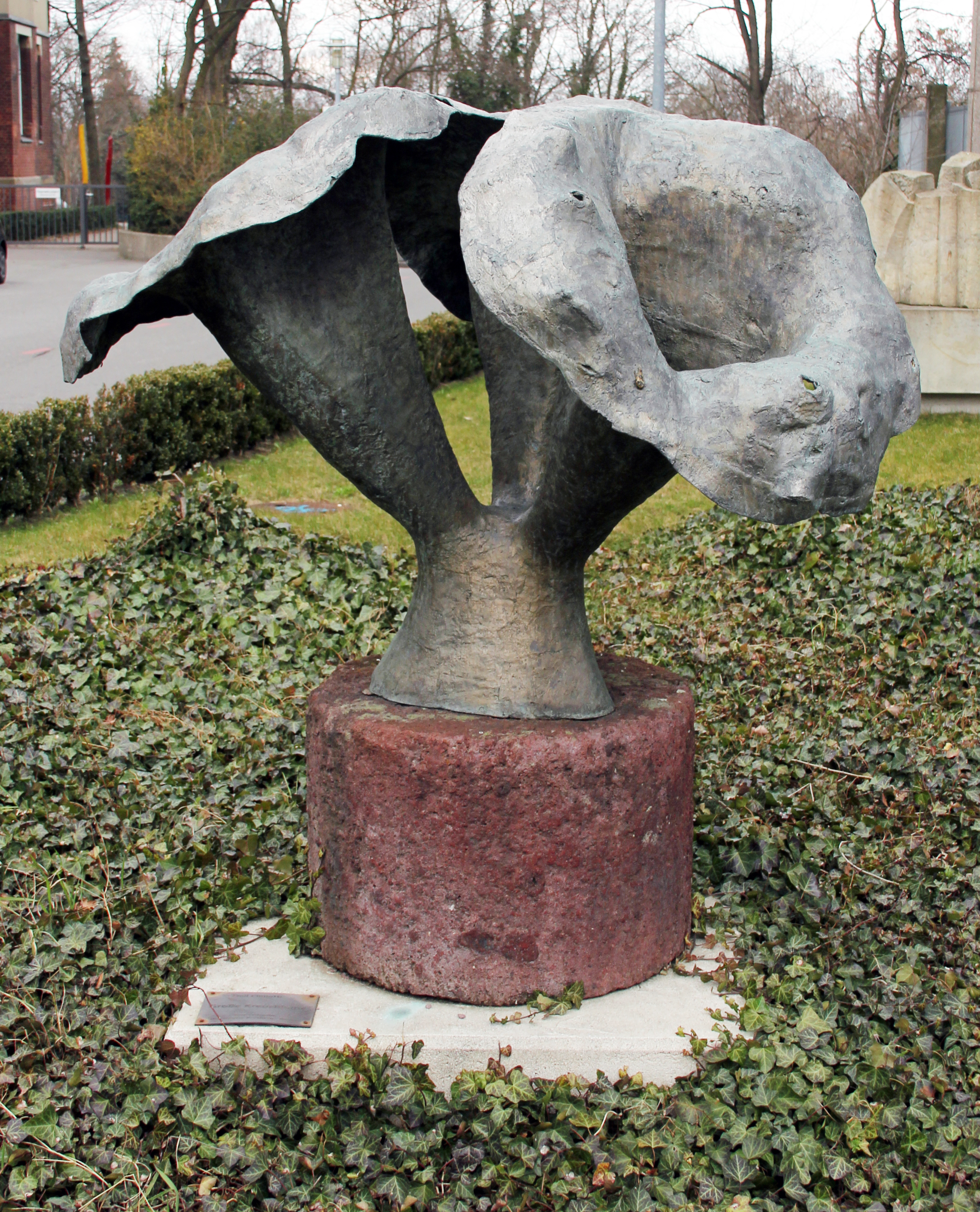 Sculpture, "Große Kreuzblume" by Emil Cimiotti, 1971, Spandauer Damm 130, Berlin-Westend, Germany